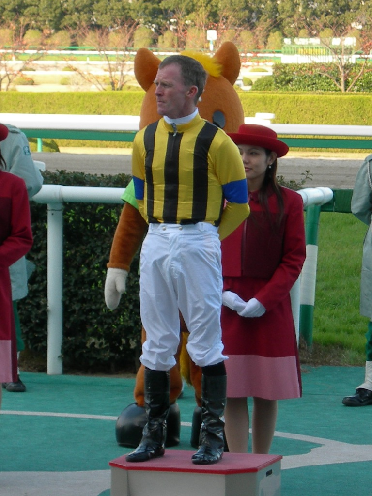 Michael Kinane Jockey from Ireland (At that time) in Hanshin Racecourse. taken in 2005.